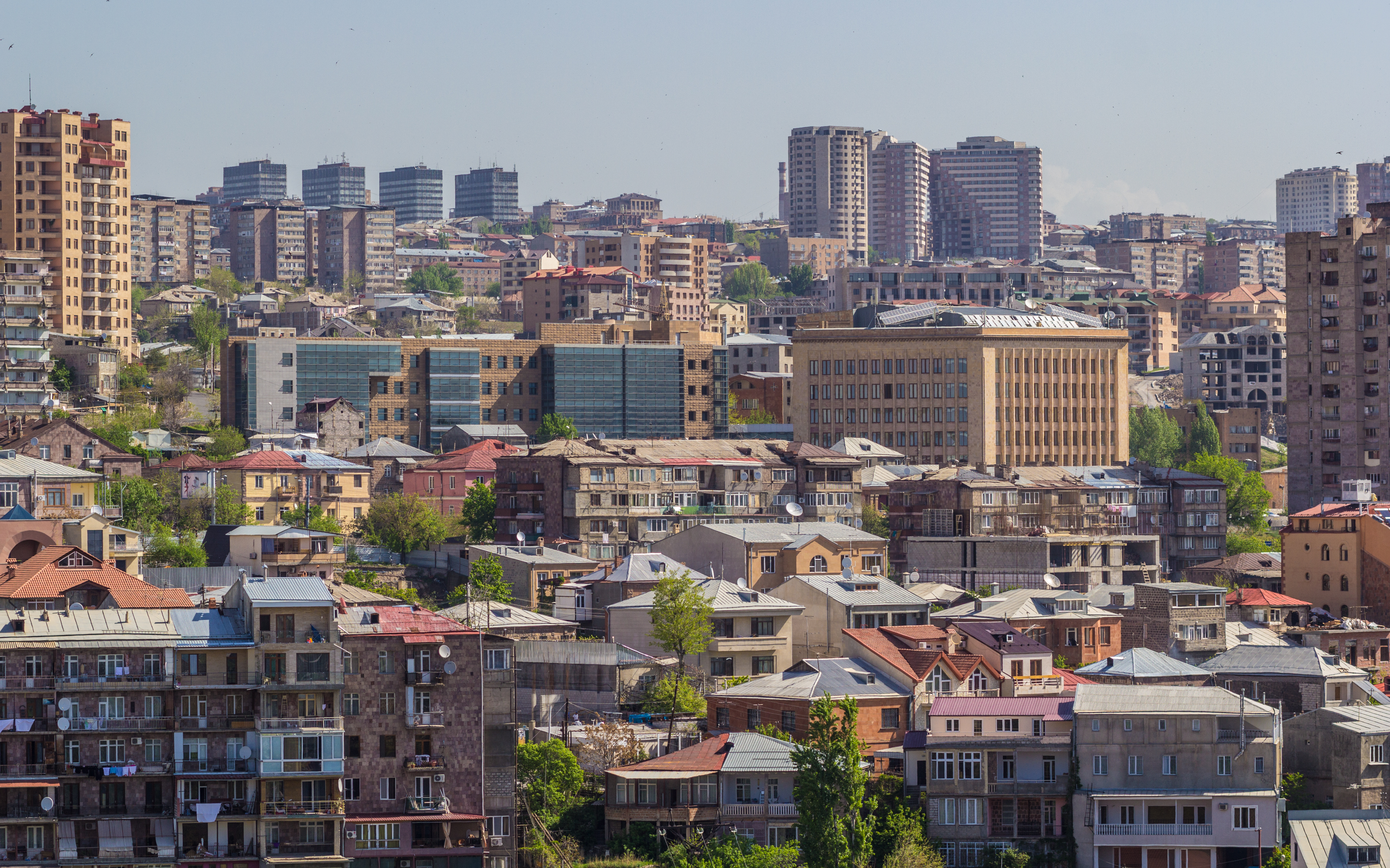 View of the American University of Armenia (center), among residential buildings in Yerevan. The new Paramaz Avedisian Building can be seen on the left, and the old building on the right.